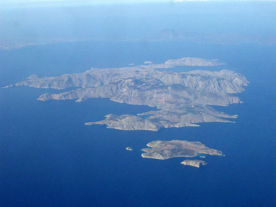 Greek island Symi and the neighboring islands